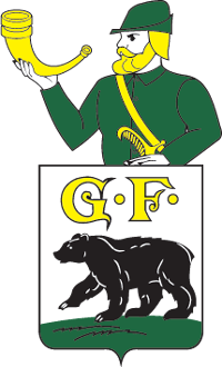 Chernyakhovsk (Kaliningrad oblast), coat of arms